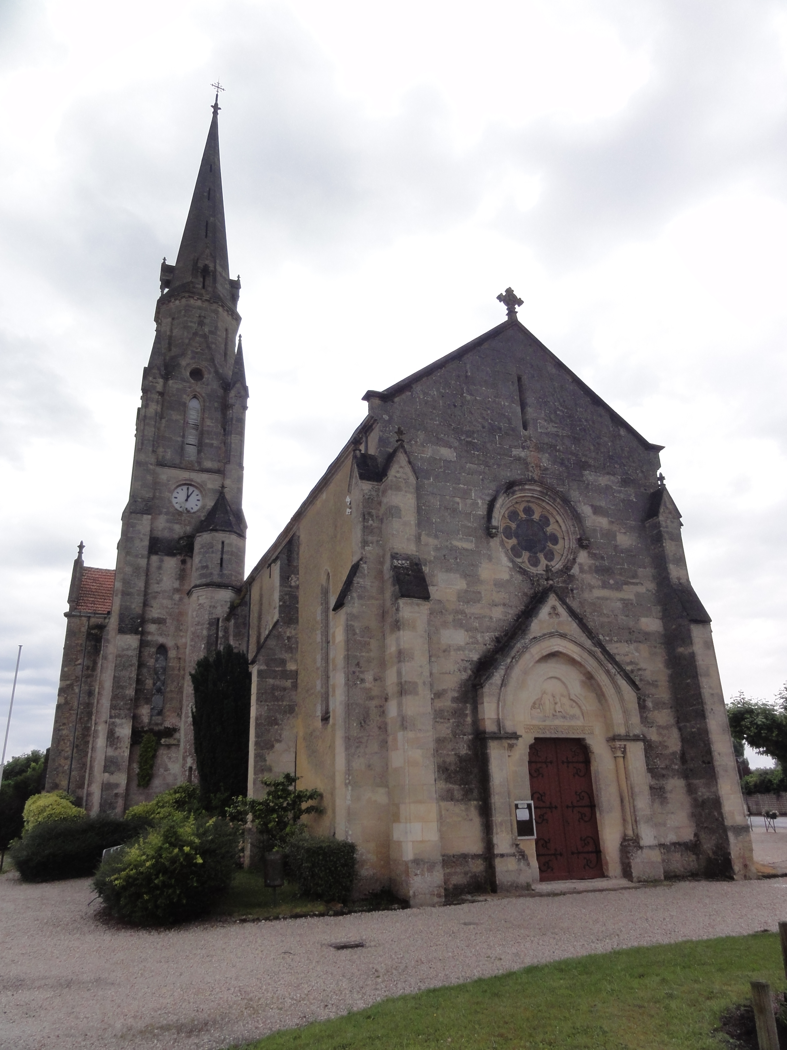 Le Barp (Gironde) église, extérieur